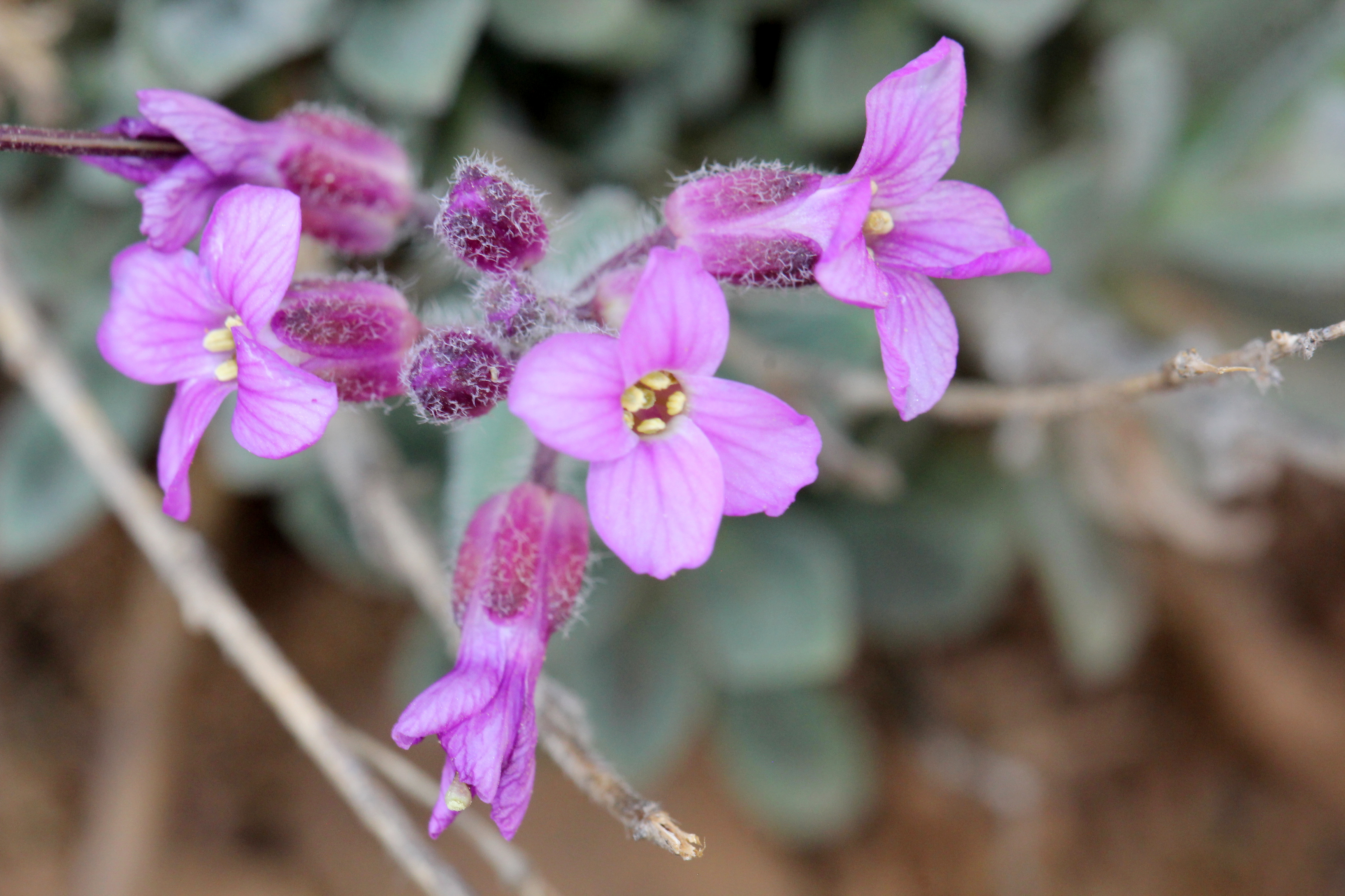 Boechera breweri from Mt. Diablo - March 2014